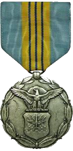 USAF Meritorious Civilian Service Award medal